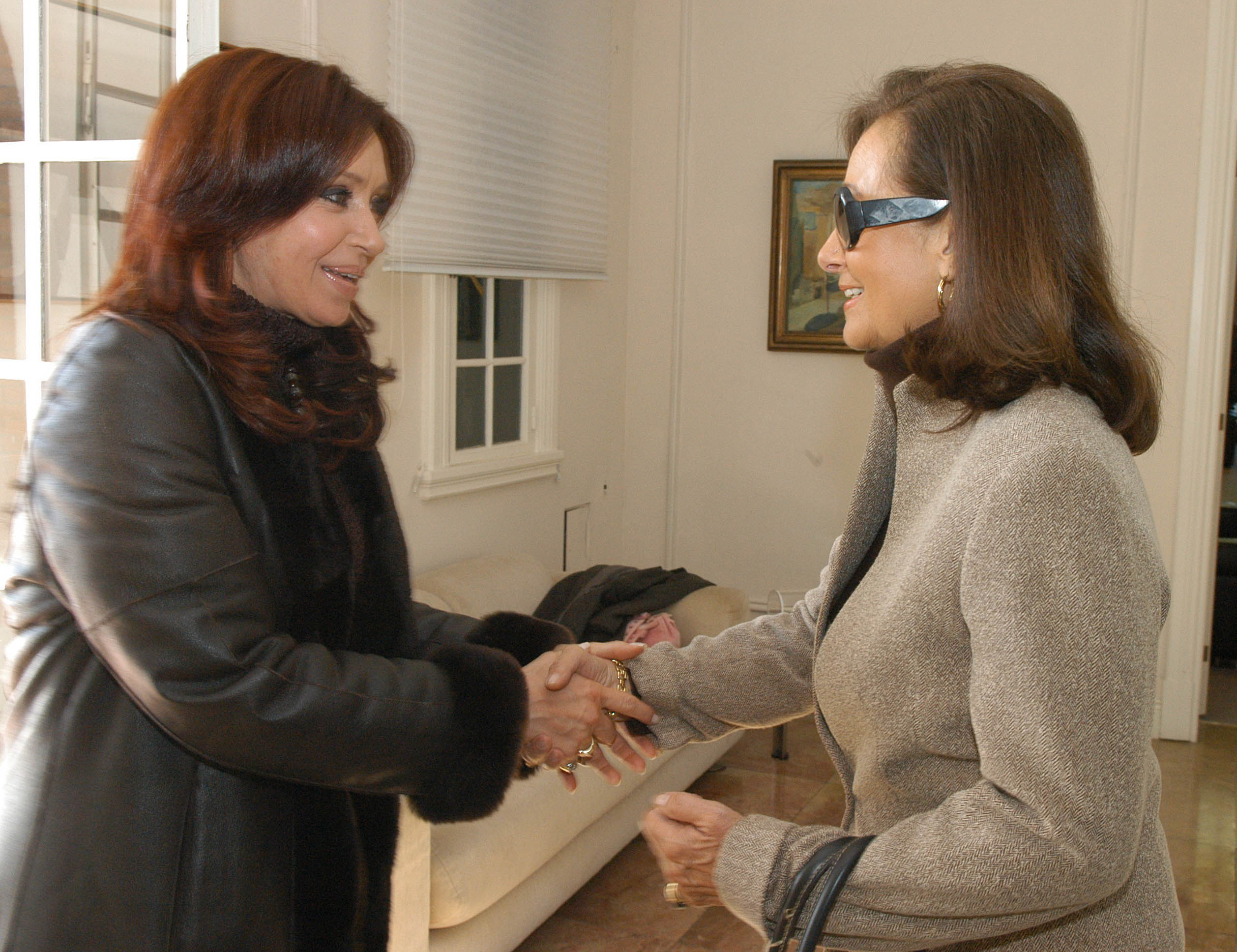 Cristina Fernández de Kirchner with Yolanda Pulecio, Íngrid Betancourt's mother.